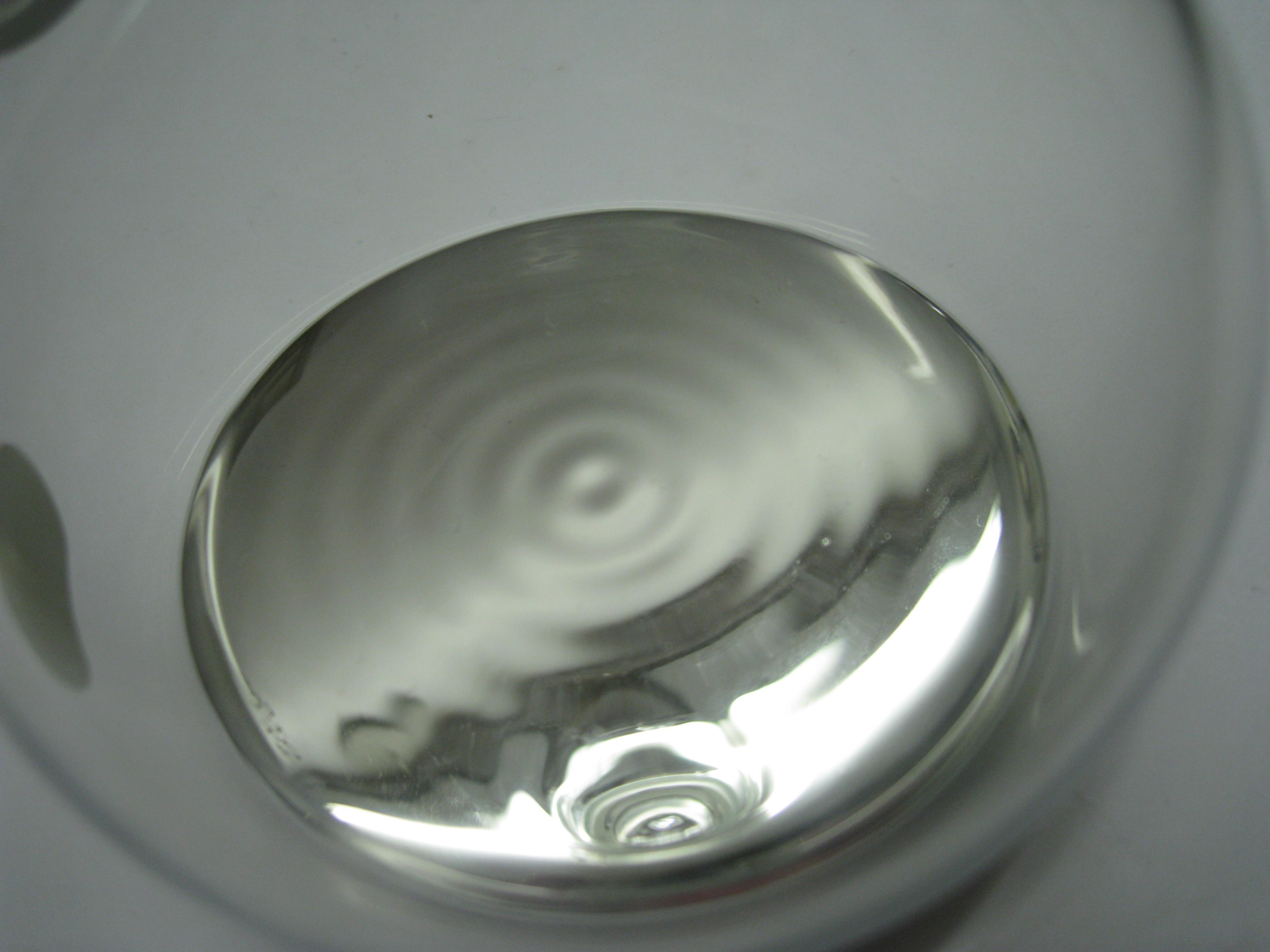 Mercury sealed in glass-bottle, from the Dennis s.k collection.